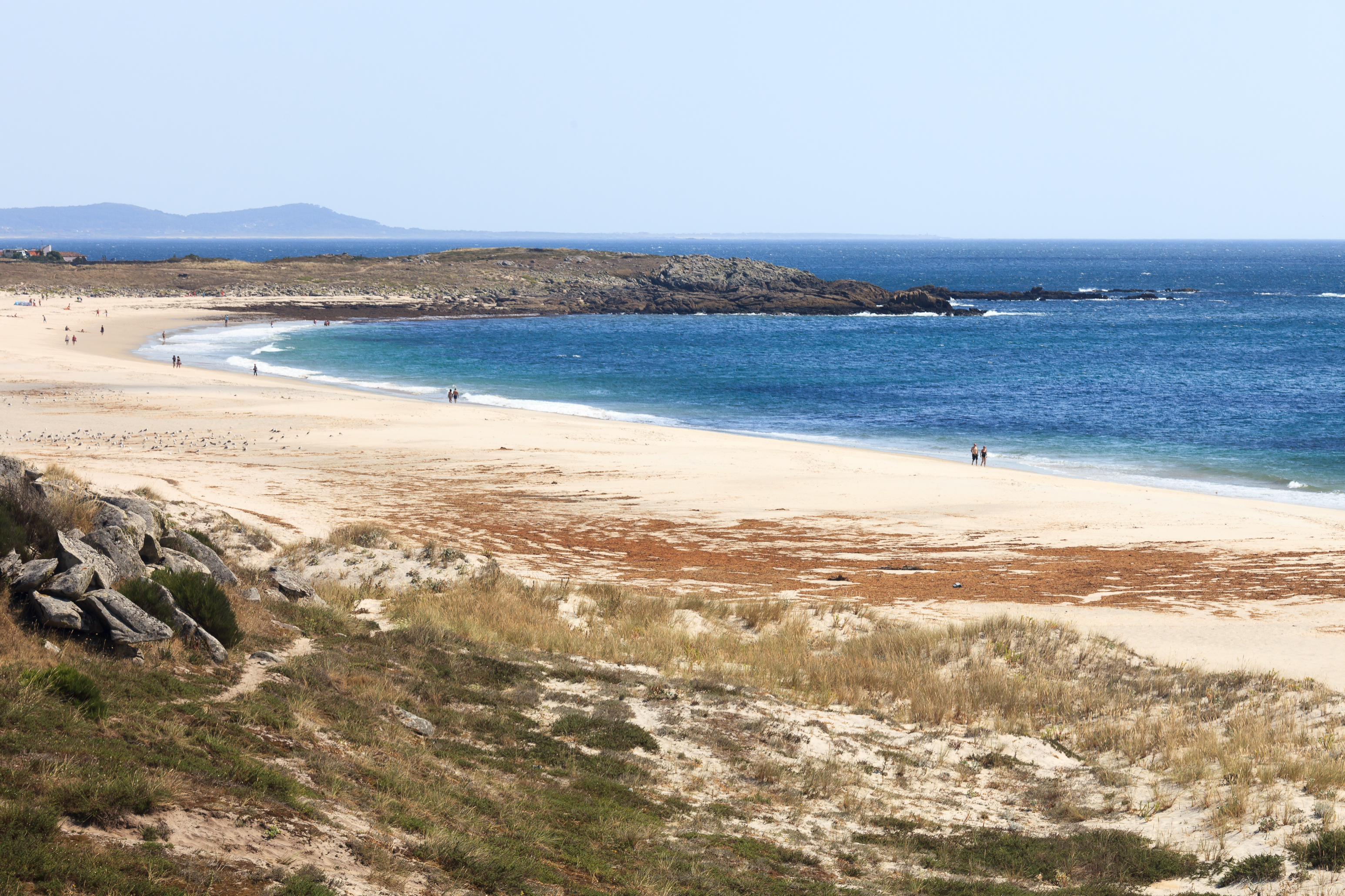 Beach of Lariño, Carnota, Galicia (Spain).